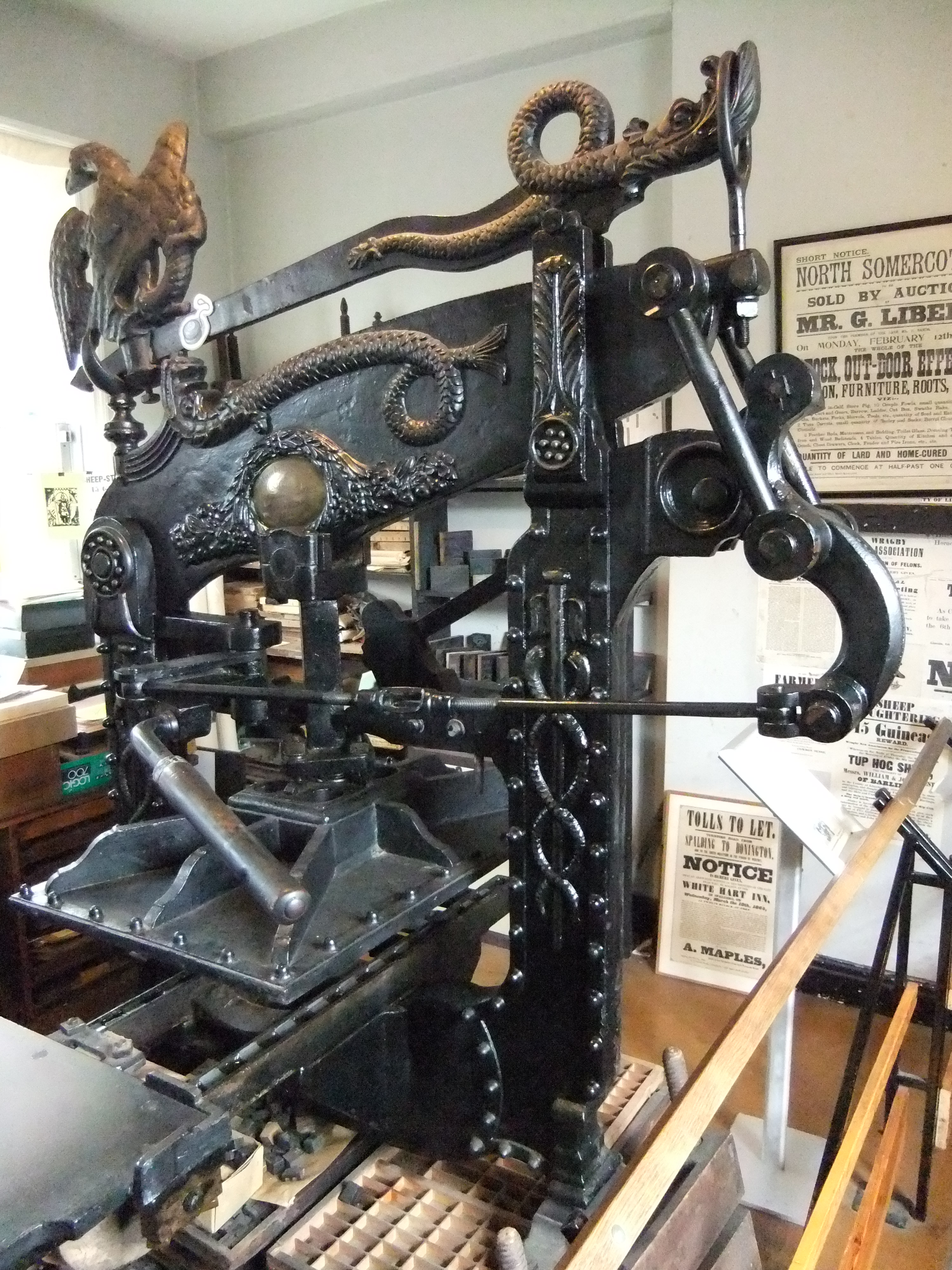 Printing press. Photo taken at The Museum of Lincolnshire Life, Lincoln, England.